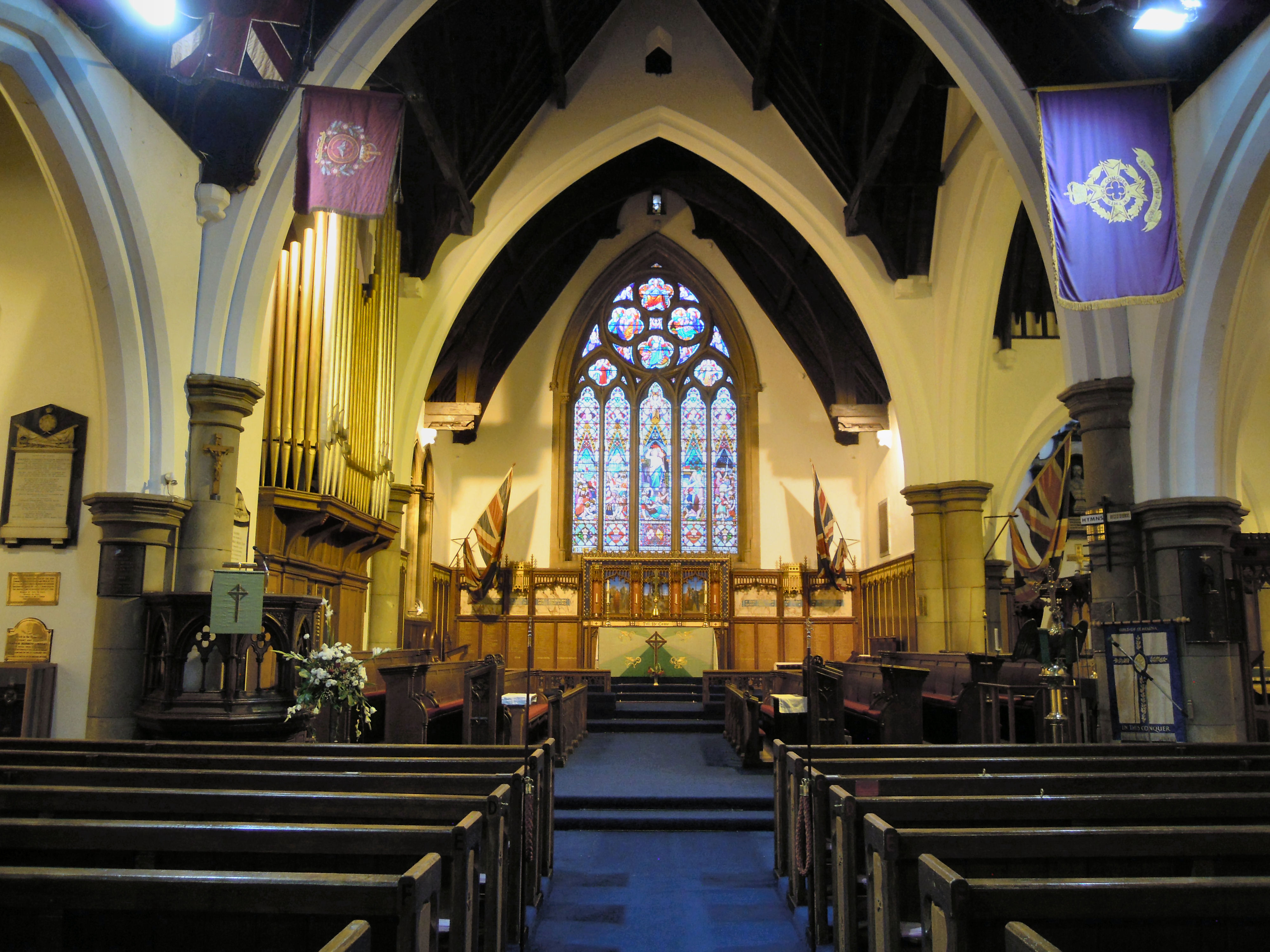 The Chancel of the Royal Garrison Church, Aldershot